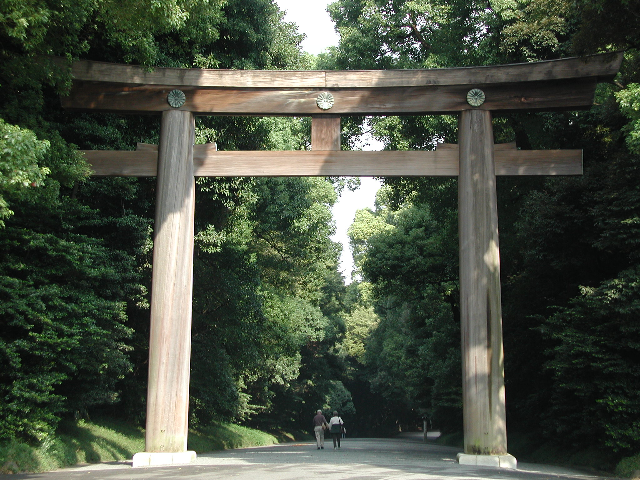 Torii at the entrance to Meiji-jingu in Tokyo. Photograph taken by Teddy Yoshida on October 25, 2002.